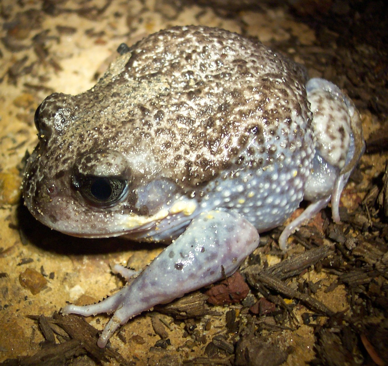 This is a male Heleioporus australiacus, from the Northern Sydney region.